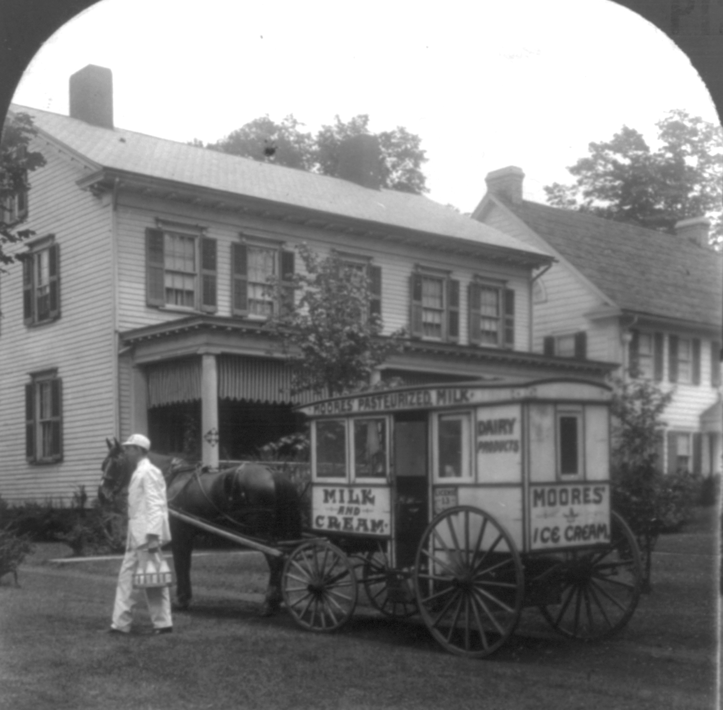 TITLE: Delivering Milk to City Homes CALL NUMBER: STEREO SUBJ FILE - Carts & wagons [item] [P&P] REPRODUCTION NUMBER: LC-USZ62-56628 (b&w film copy neg. of half stereo) RIGHTS INFORMATION: No known restrictions on publication. SUMMARY: Milkman carrying milk from horse-drawn wagon of Moore's Dairy Products, in front of house. MEDIUM: 1 photographic print on stereo card : stereograph. CREATED/PUBLISHED: c1925 Jan. 3. NOTES: P-263992 U.S. Copyright Office Stereo copyrighted by the Keystone View Co. This record contains unverified, old data from caption card. Caption card tracings: Ice cream; City & town life; Photog. Index; Occupations--Milkmen; Delivery trucks & wagons; Dairy industry; Shelf. REPOSITORY: Library of Congress Prints and Photographs Division Washington, D.C. 20540 USA DIGITAL ID: (b&w film copy neg.) cph 3b04462 CONTROL #: 2004681908